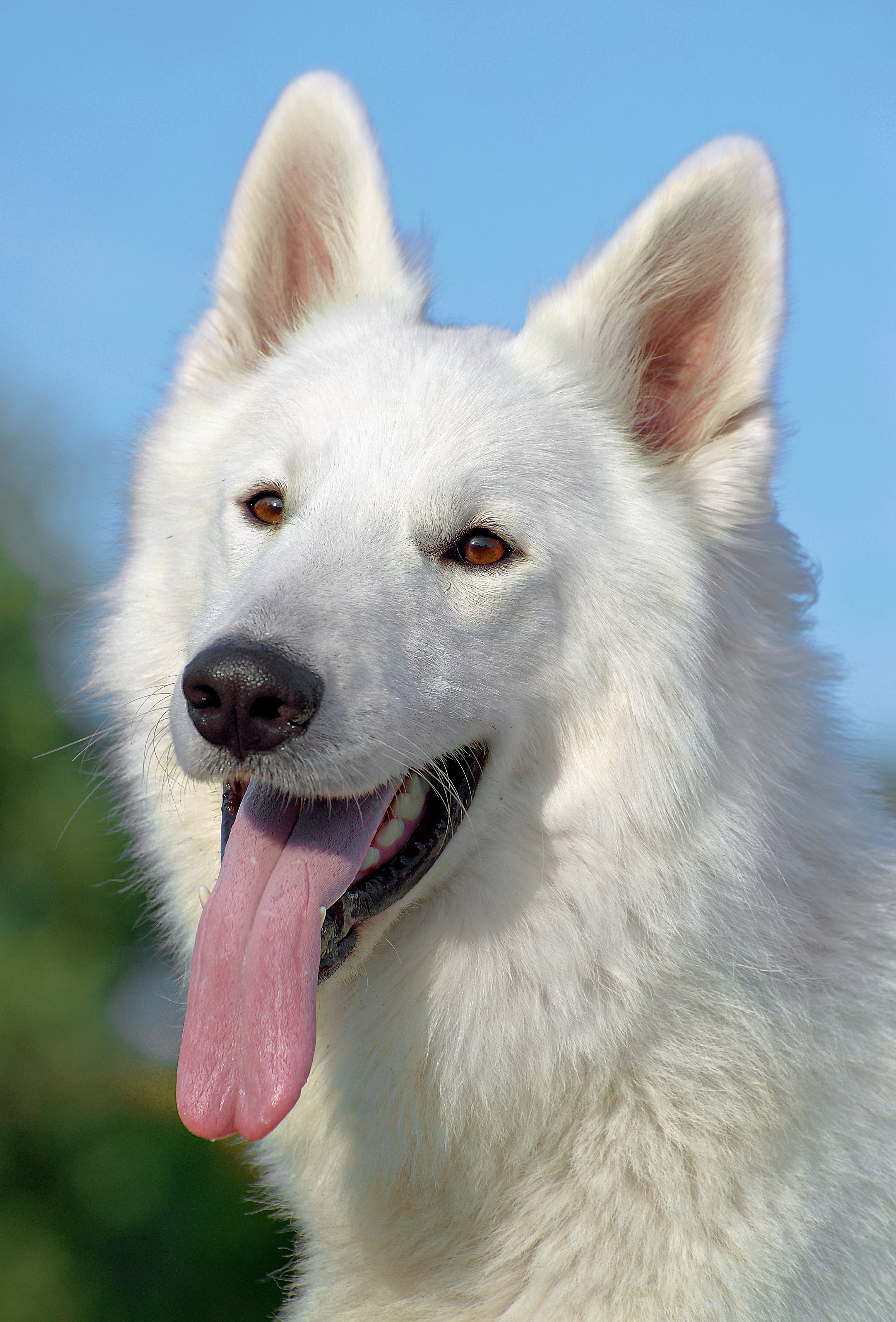 Berger blanc suisse